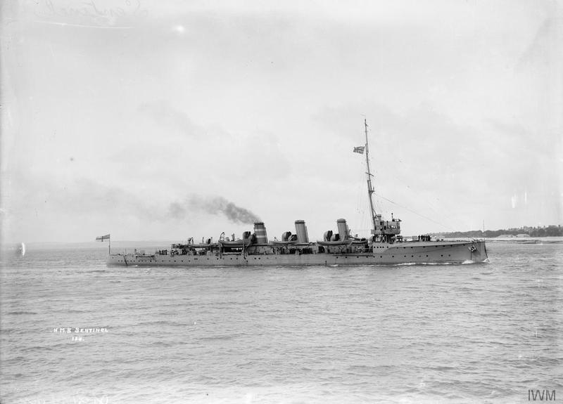 British Ships of the First World War HMS SENTINEL